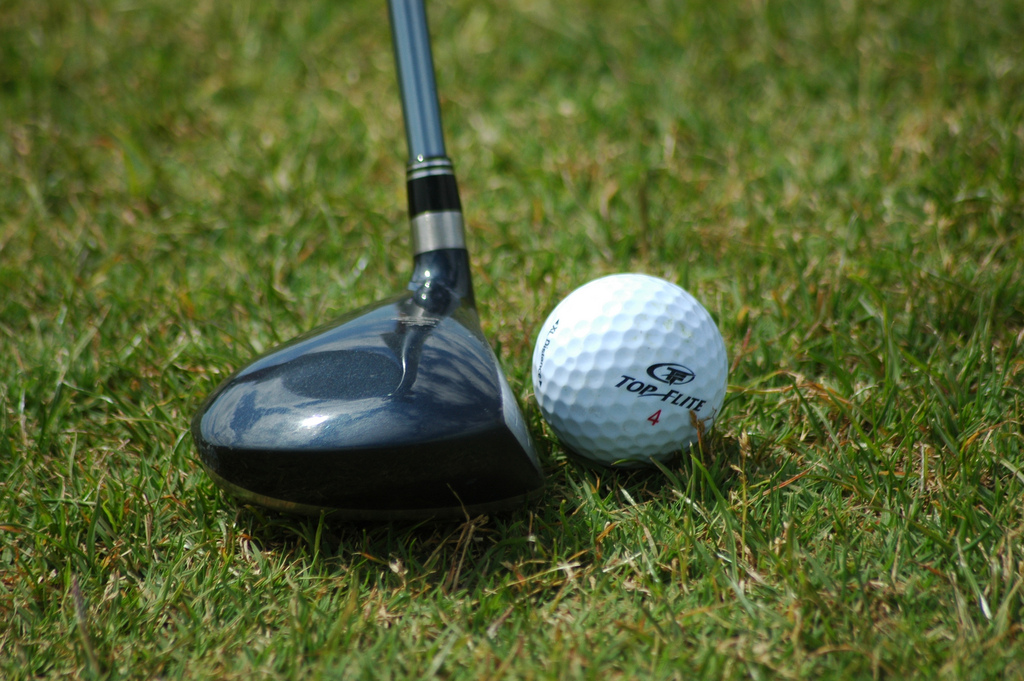 Fairway wood positioned near golf ball